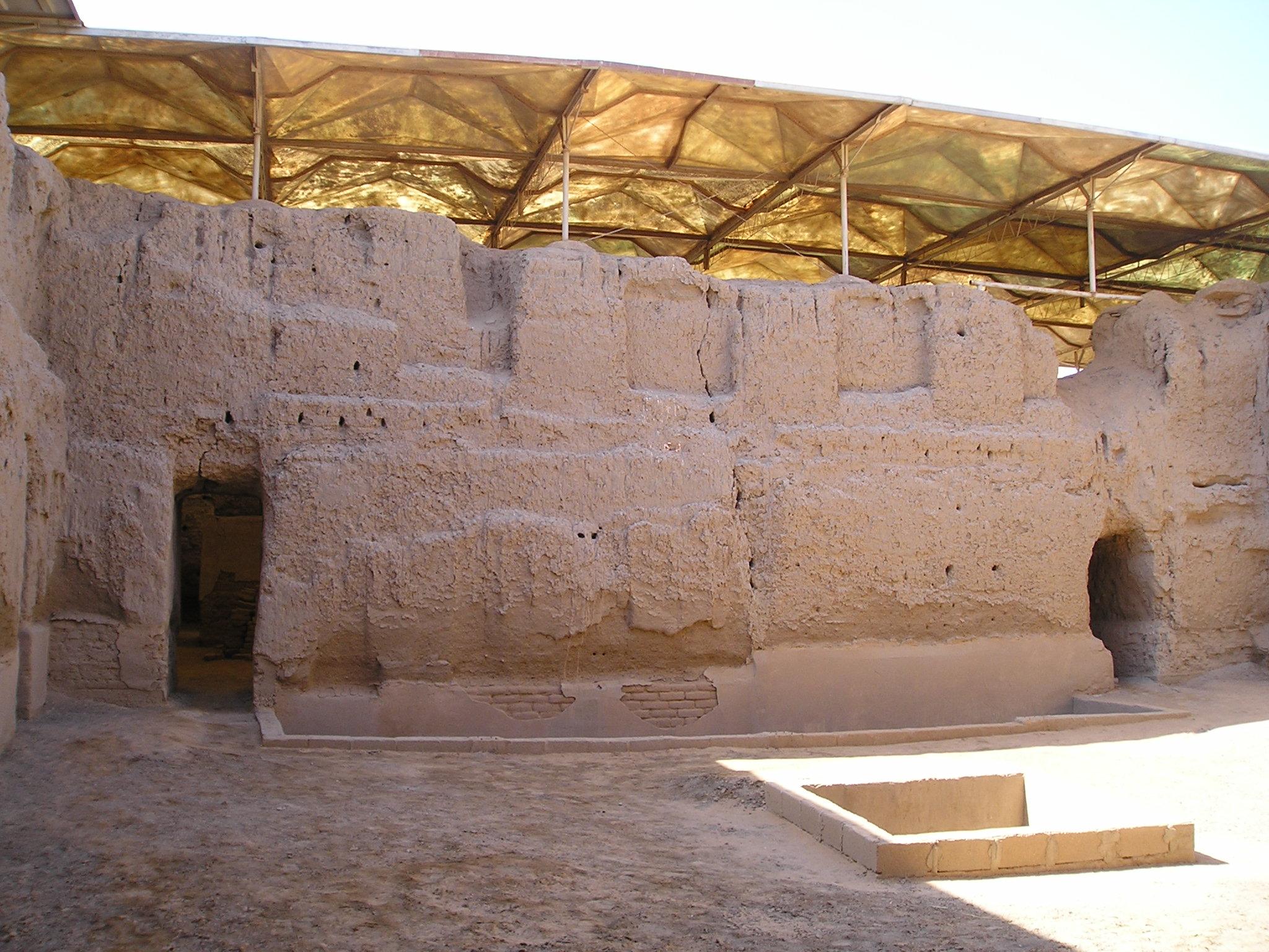 Mari, Syria: remains of Zimri-Lim Palace